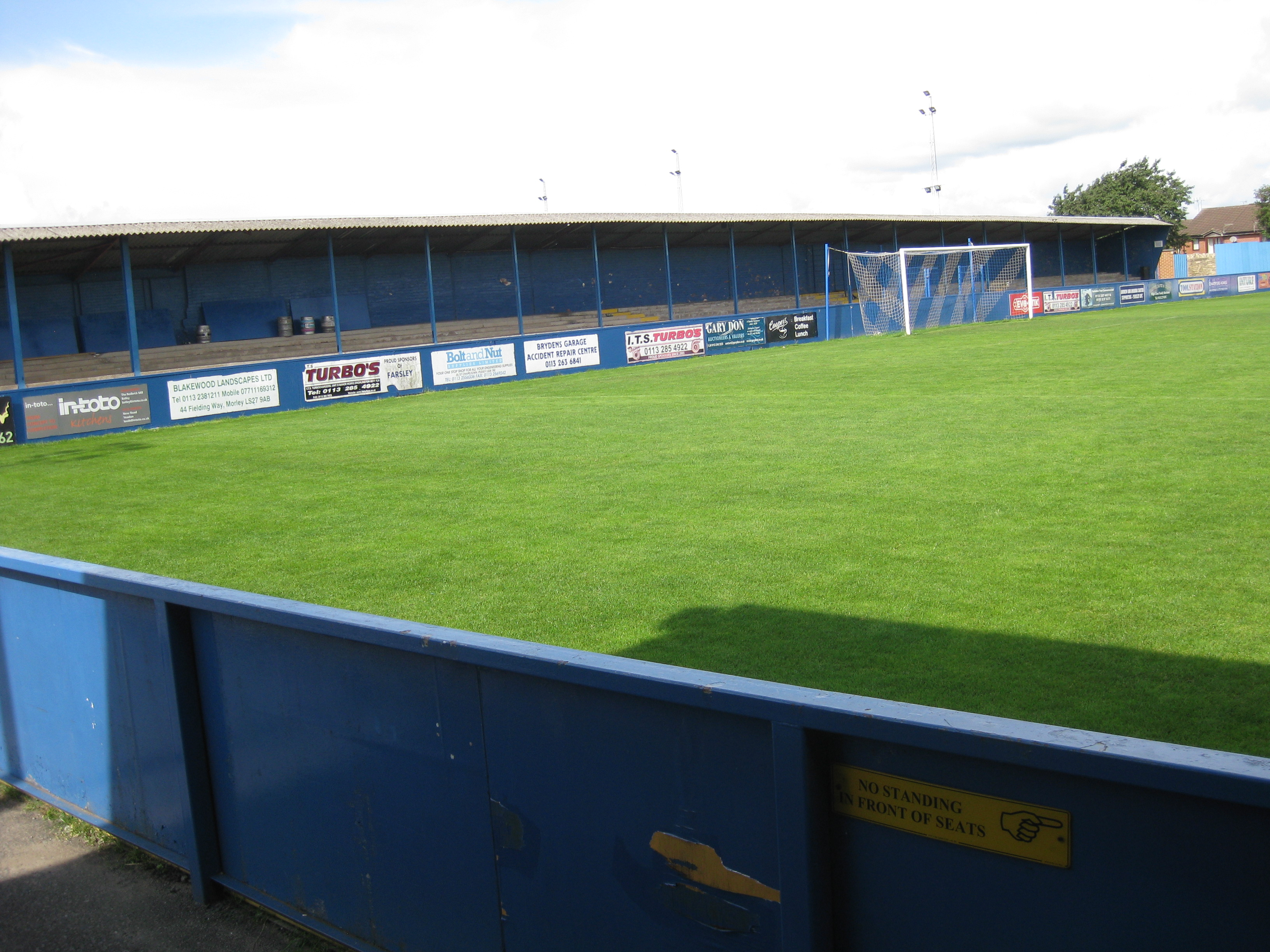 Farsley Celtic football ground (Throstle Nest), Farsley. View from South end showing the West Stand (Shed End)